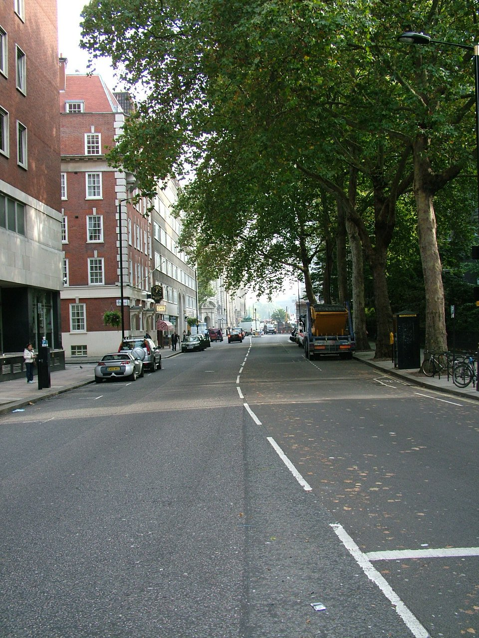 Horseferry road, Central London, October 2007